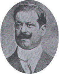 Notable Portuguese